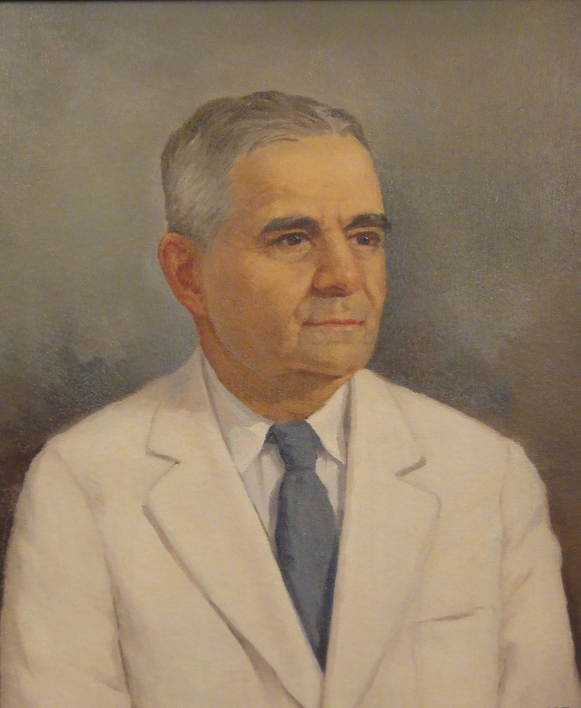 Andres Grillasca Salas, Mayor of Ponce, Puerto Rico